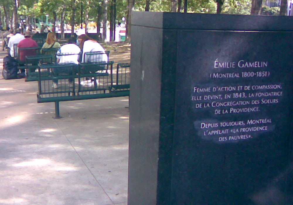 Historic text about Émilie Gamelin at Place Émilie-Gamelin